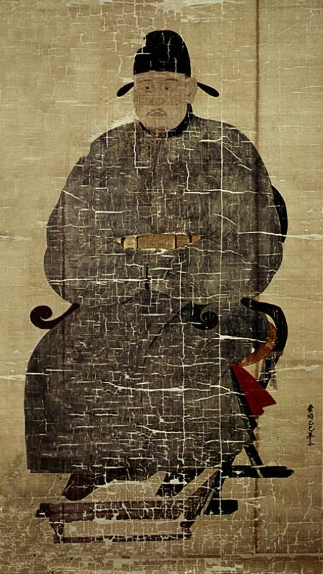 Portrait of Jeong Mongju in the late Goryeo dynasty